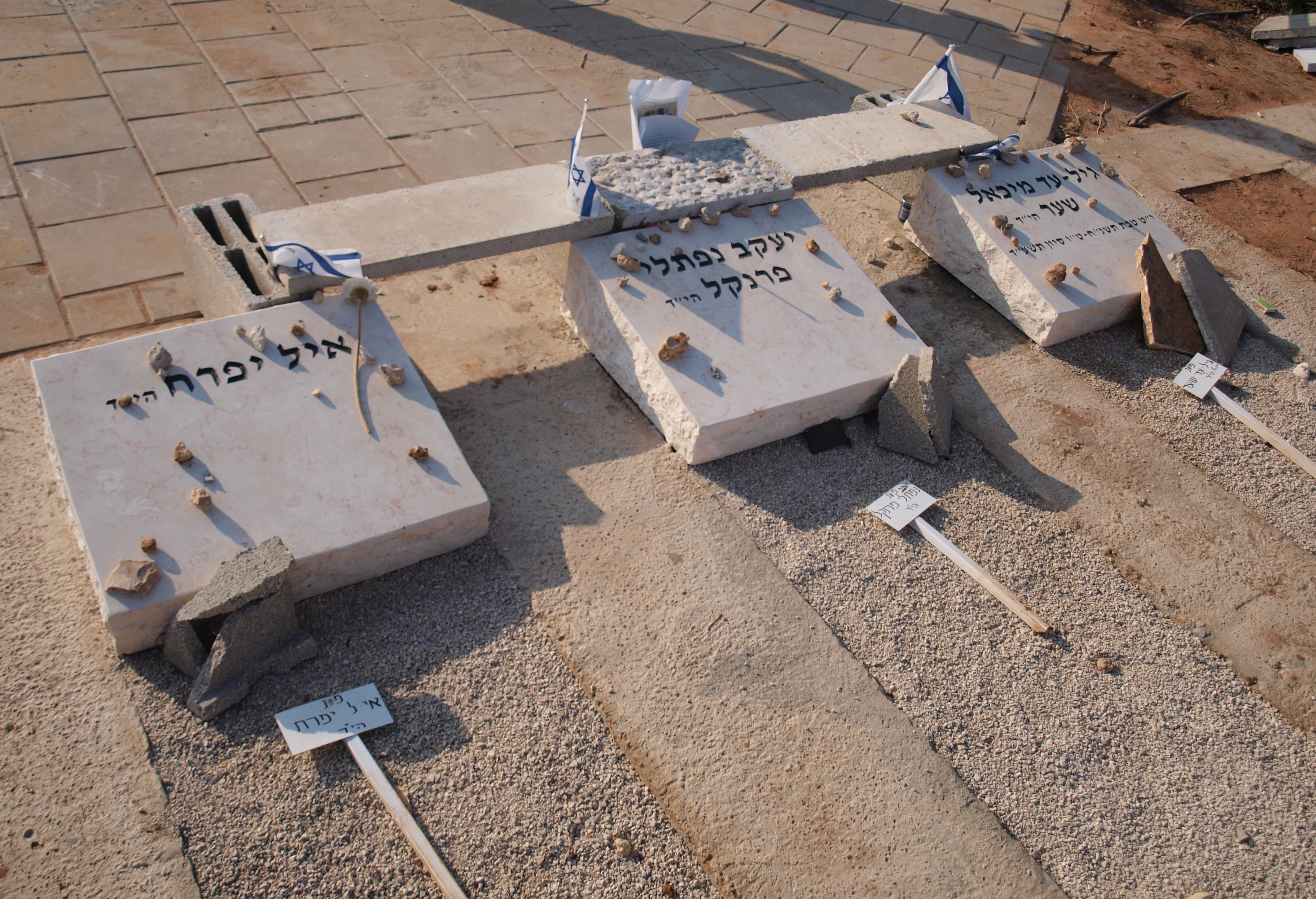 The graves of three Israeli teenagers killed by Hamas members in 2014 prior to the 2014 Gaza Conflict